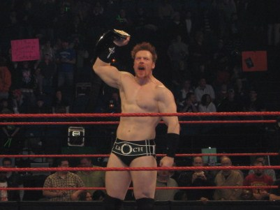 Sheamus with the WWE championship